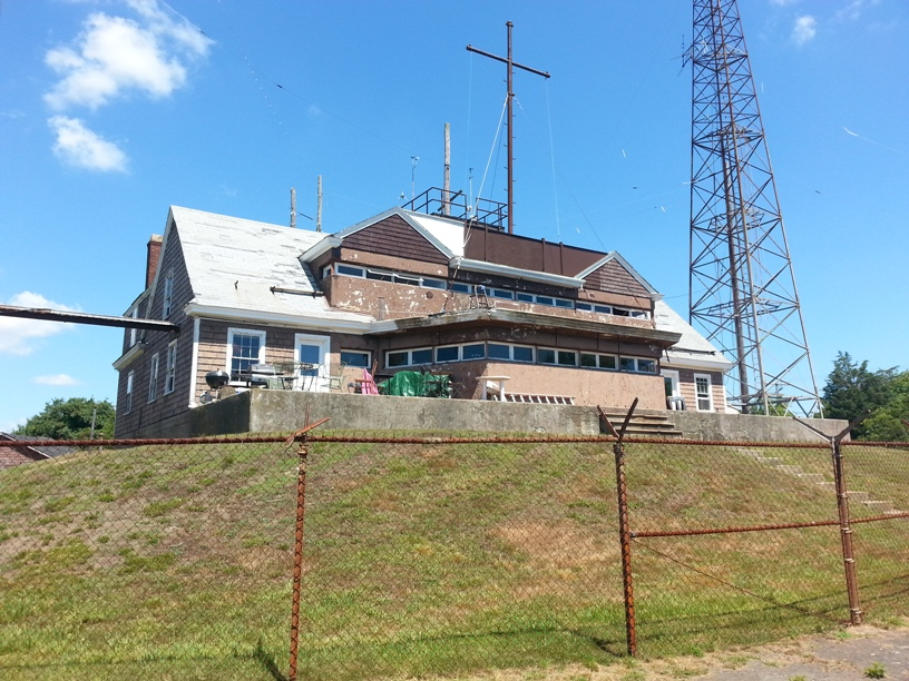 Former Coast Artillery Harbor Entrance Control Post disguised as a mansion, Beavertail State Park (formerly Fort Burnside), Jamestown, RI, USA